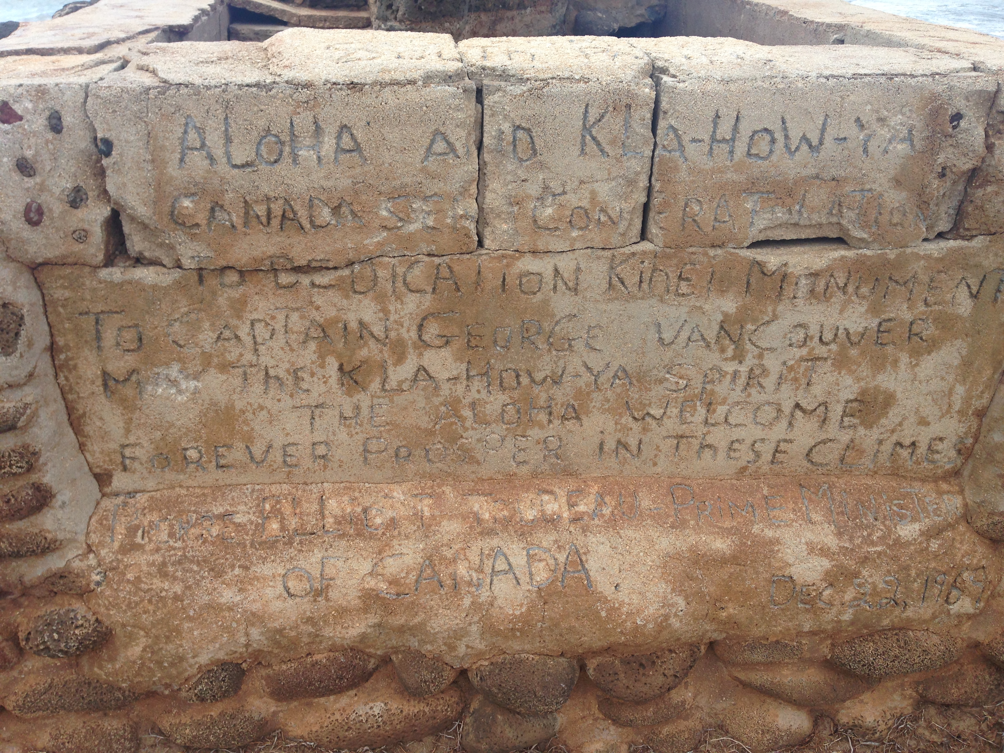 Aloha and kla-how-ya Canada [...] commemoration to dedication Kihei Monument to Captain George Vancouver [May] the Kla-How-Ya spirit [...] the aloha welcome forever prosper in these climes. Pierre Elliot Trudeau Prime Minister of Canada. Dec 22, 1969